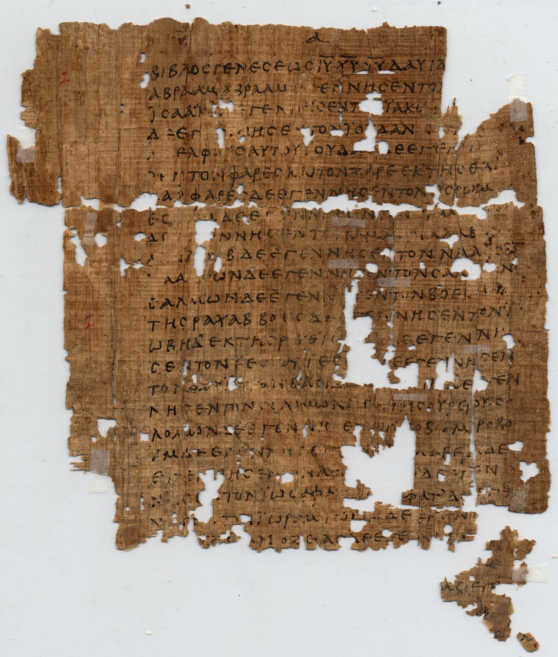 The front side (recto) of Papyrus 1, a New Testament manuscript of the Gospel of Matthew. Most likely originated in Egypt. Also part of the Oxyrhynchus Papyri (P. oxy. 2) Currently housed in